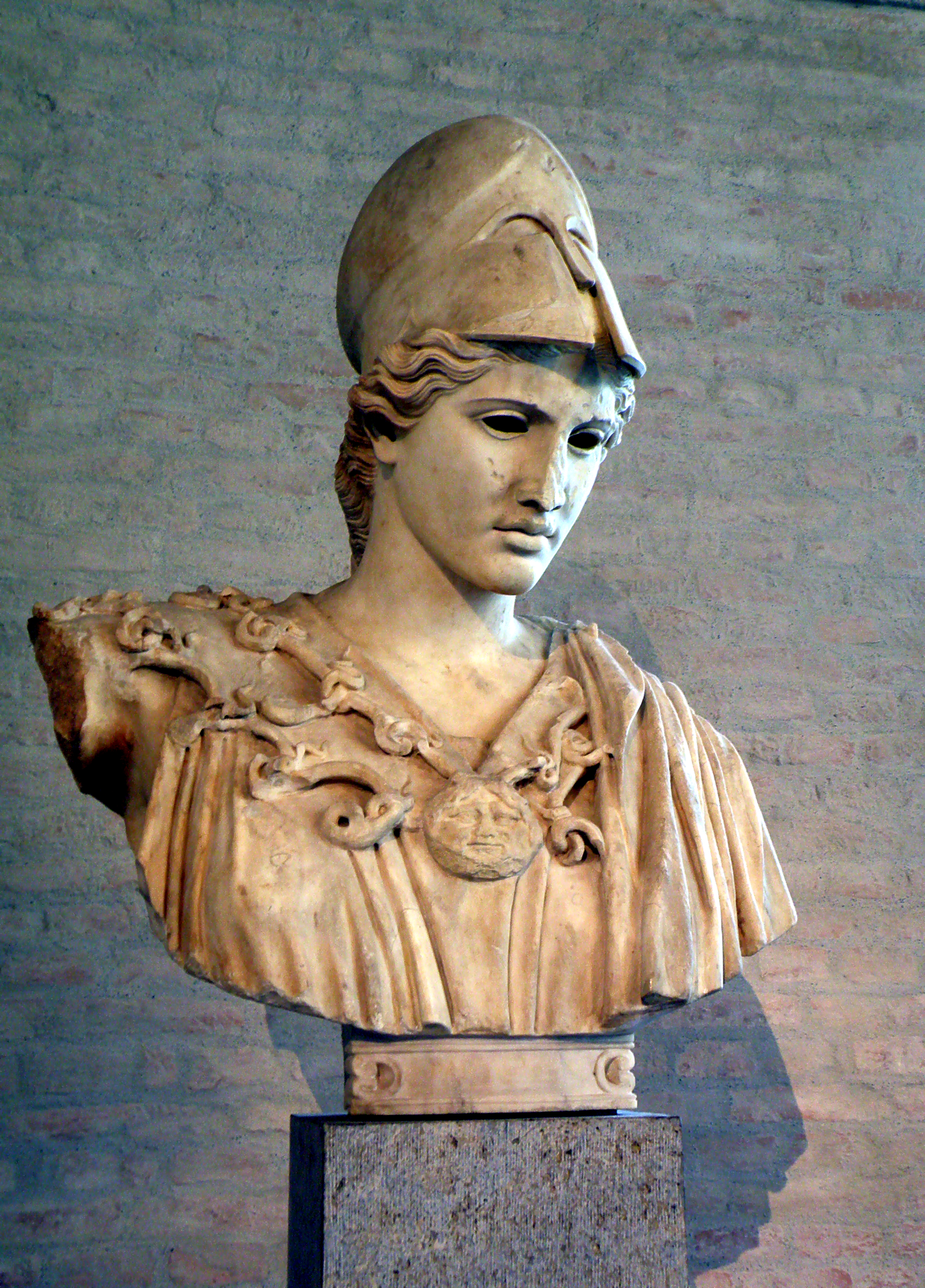 Bust of Athena, type of the “Velletri Pallas” (inlaid eyes are lost). Copy of the 2nd century CE after a votive statue of Kresilas in Athens (ca. 430–420 BC).